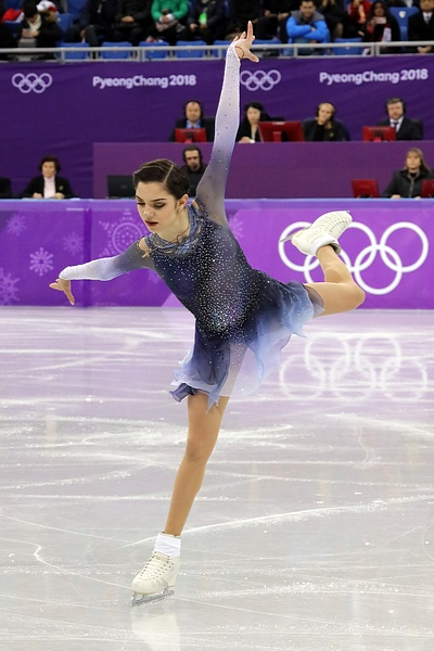 Evgenia Medvedeva at the 2018 Winter Olympic Games - Short program